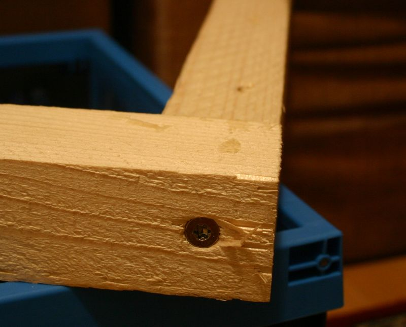 wooden connection with screw